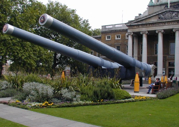 The Imperial War Museum Lambeth